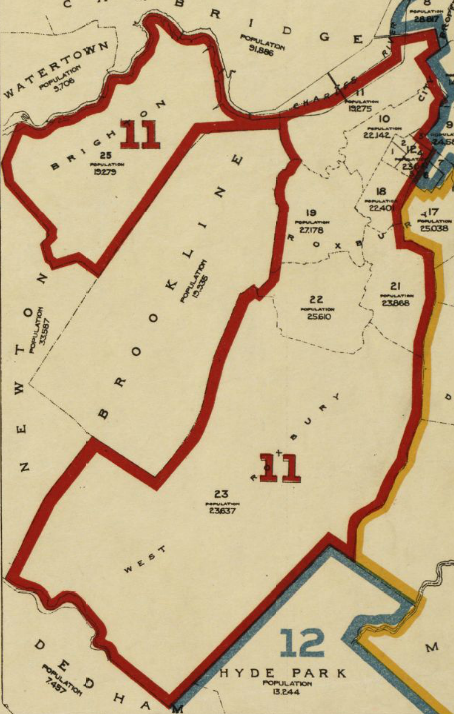 Detail of: Map of Massachusetts showing population according to United States Census of 1900 and congressional districts